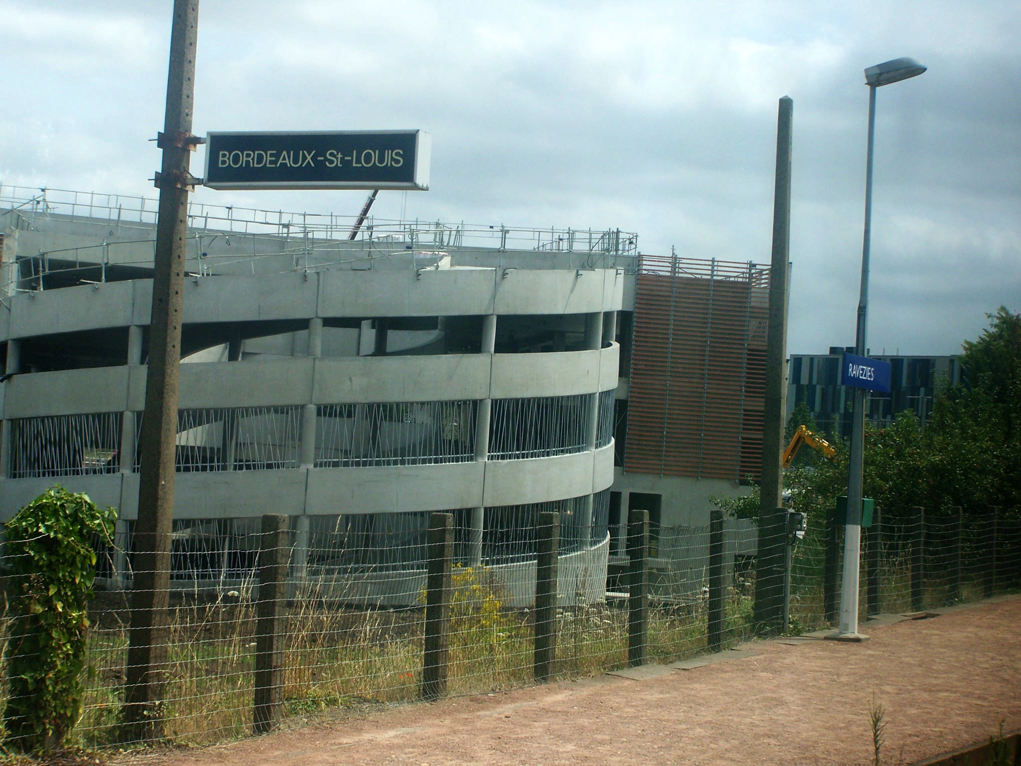 After renaming the train station of Bordeaux St-Louis by Ravezies (in Gironde, France, both name signs are still existing.